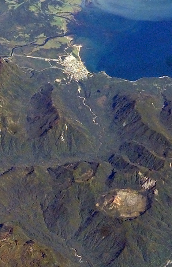 Chaitén Volcano and Town, Chile